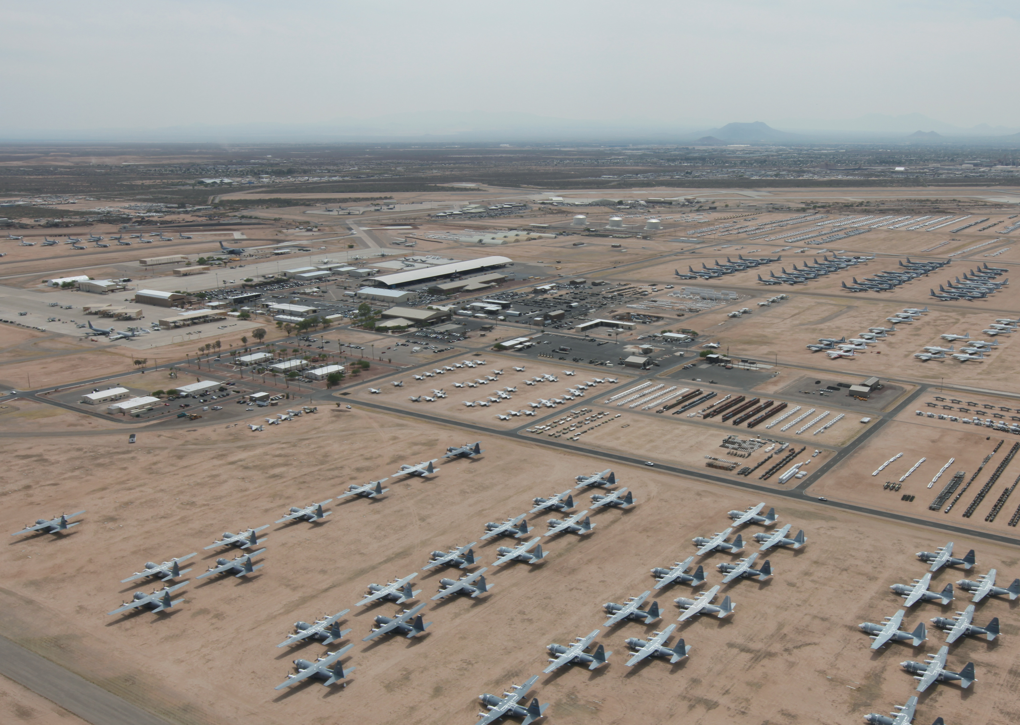 Retired aircraft at the 309th Aerospace Maintenance and Regeneration Group (309 AMARG) at Davis-Monthan Air Force Base, ARizona (USA). Lockheed C-130 Hercules aircraft are visible in the foreground, followed by Lockheed P-3 Orions and Boeing KC-135 Stratotankers.